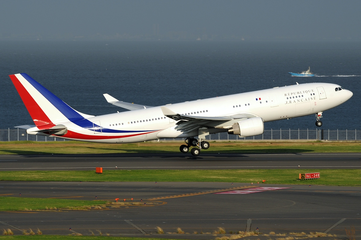 Prime Minister of France visit to Japan in 2011.